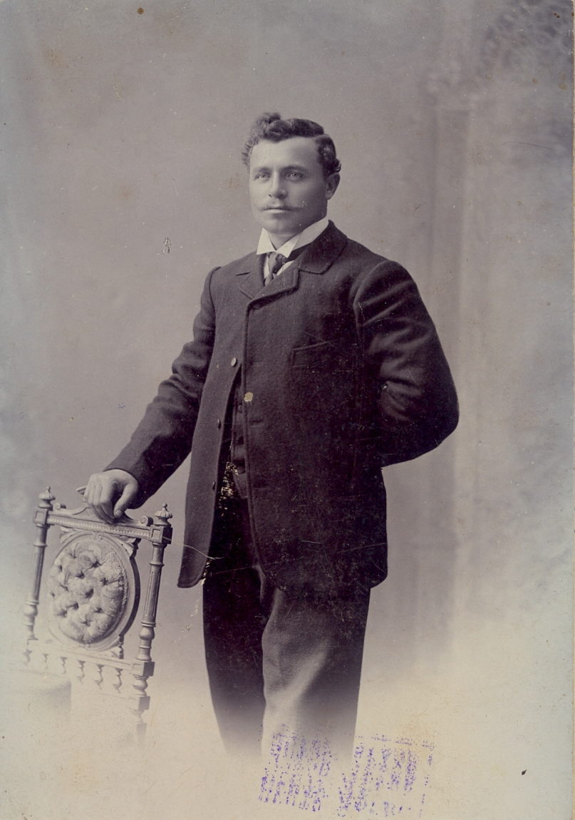 Bulgarian revolutionaire, member of the Internal Macedonian-Adrianopolitan Revolutionary Organization Petar (Pesho) Samardzhiev.